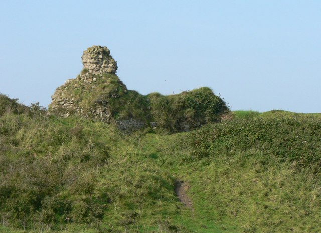 Kenfig Castle ruins, near to Mawdlam, Bridgend/Pen-y-Bont ar Ogwr, Wales.